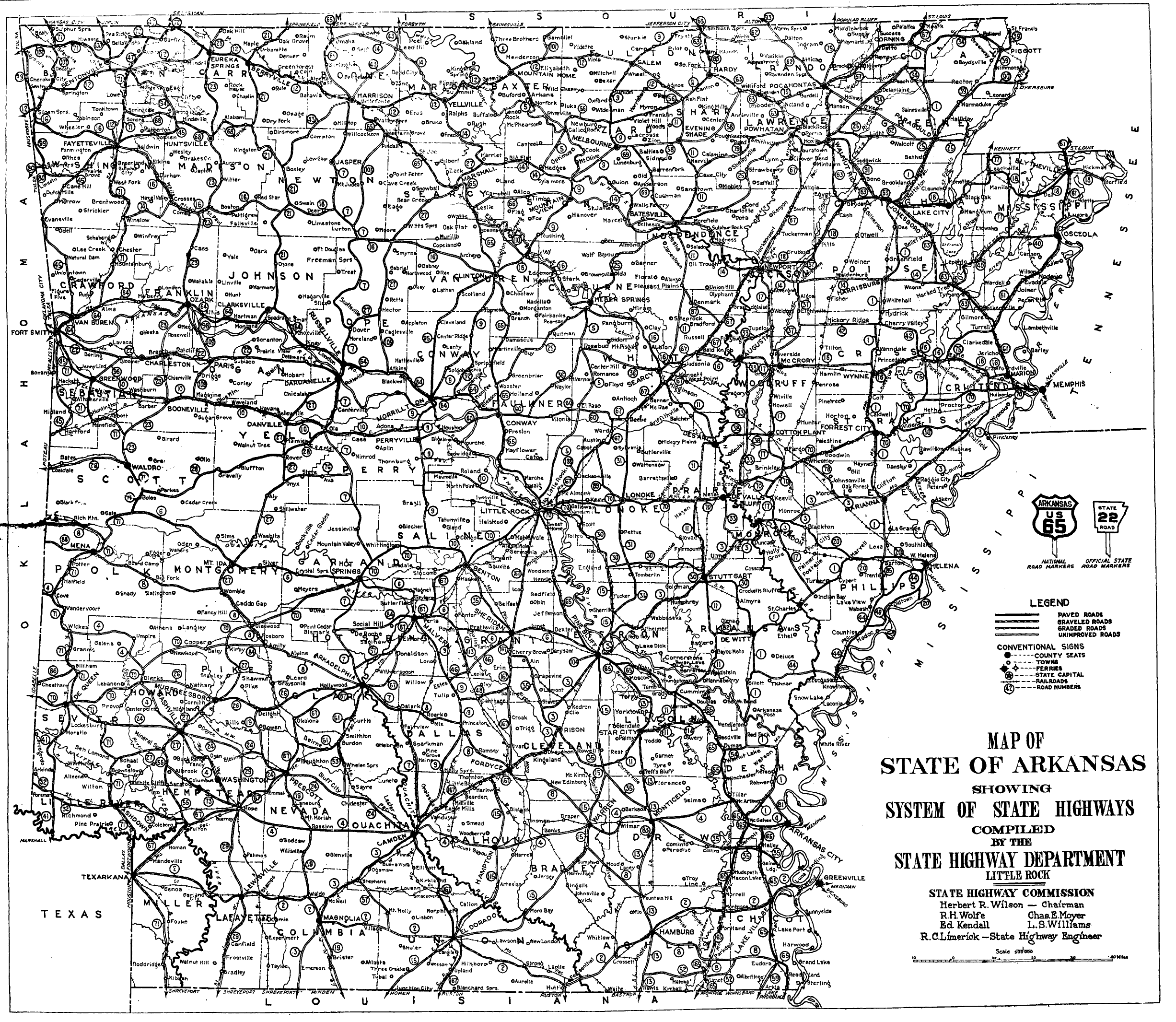 This is a map copyrighted by the Arkansas State Highway Department in 1926, showing the new numbering system. It comes from a larger map on this Historic Tourist Maps – By Year section on the Arkansas State Highway and Transportation Department. I searched Copyright renewal records at and the ASHD did not renew any copyrights. Therefore this map is now in the public domain.